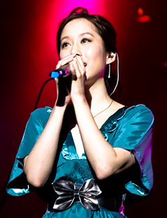 Taiwanese singer Evonne Hsu performing at the 2007 Live Earth China @ Shanghai Oriental Pearl TV Tower